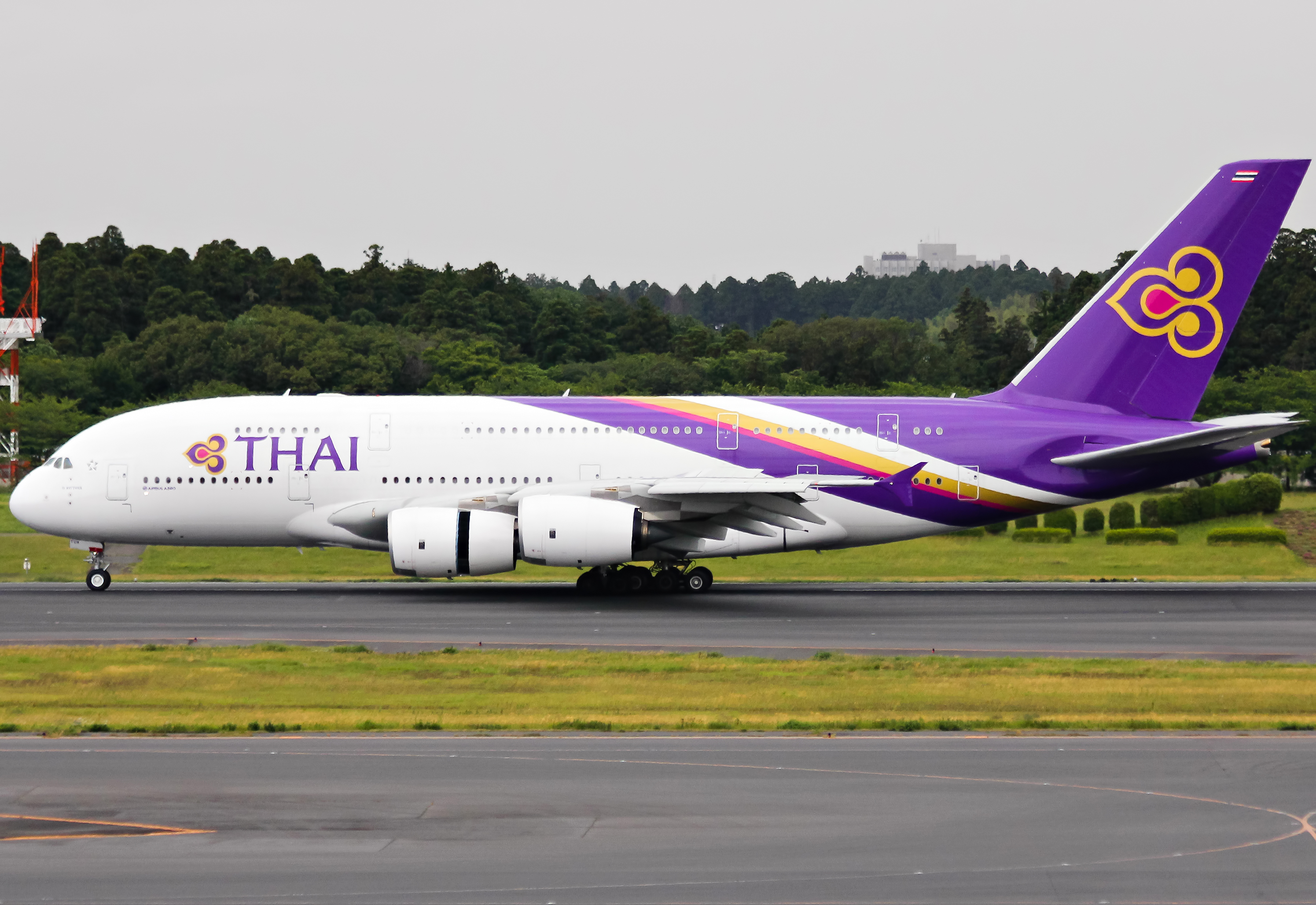 Airbus A380-841 SN:87 Named: Si Rattana